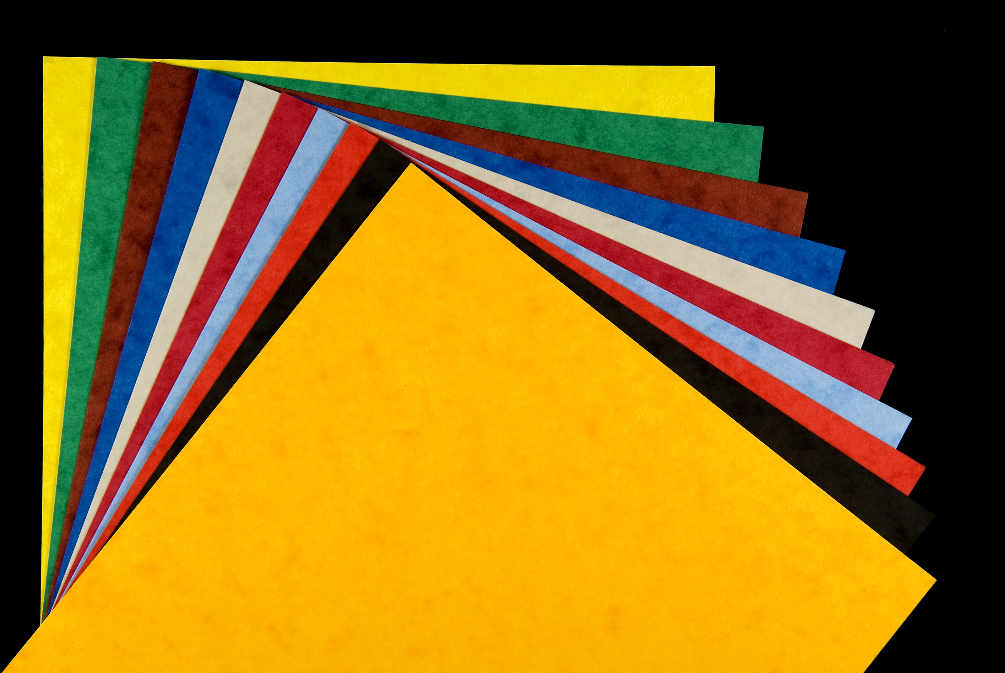 Textured craft card, in a variety of colours. The visible texture is a characteristic of this type of card.